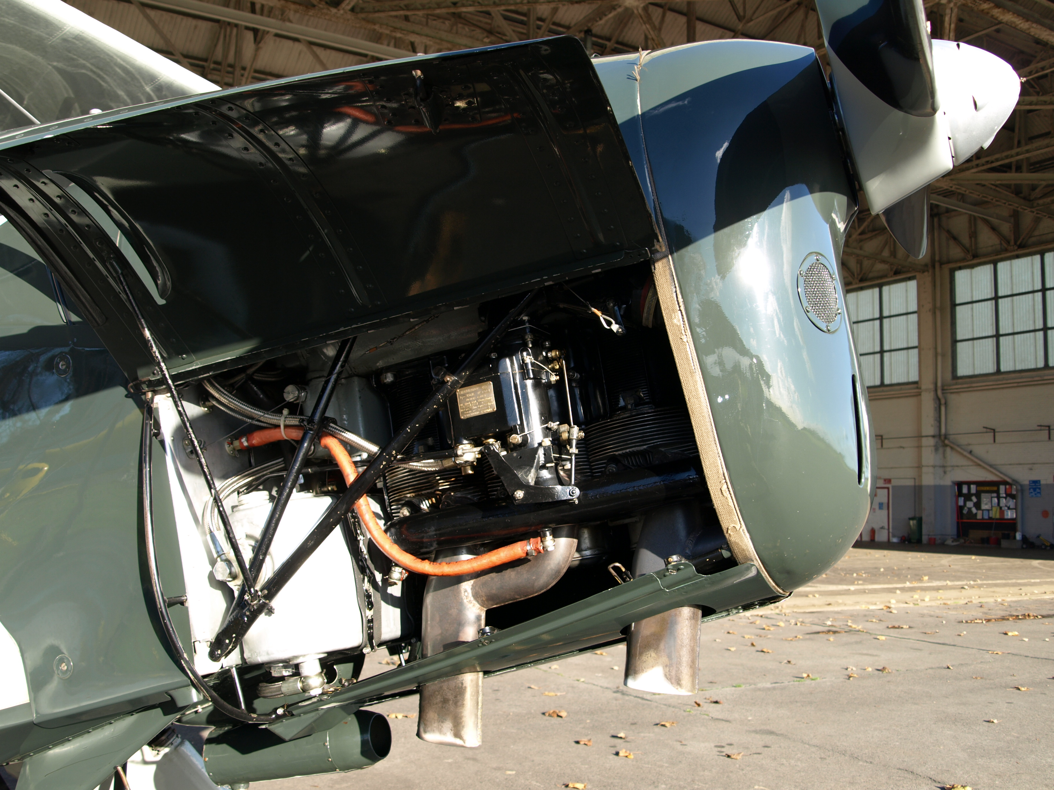 ENMA Tigre IVB installed in a Bucker Jungmann, Bicester airfield, November 2008.